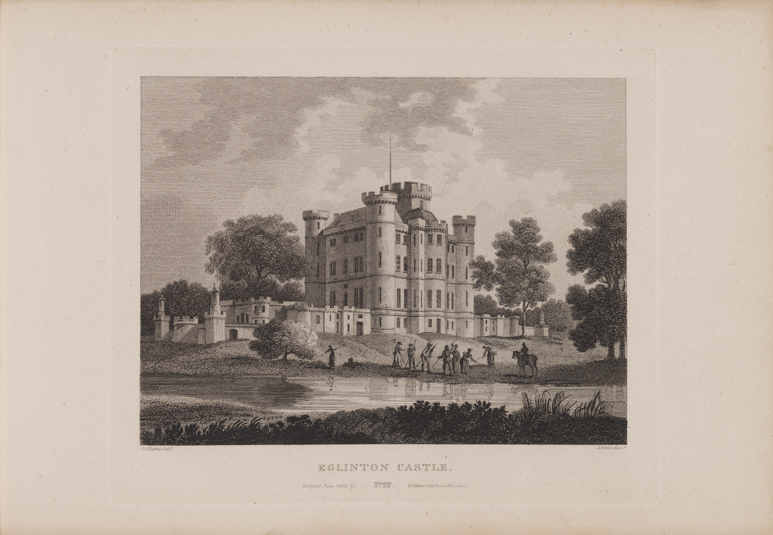 Plate XXII/b - John Claude Nattes made drawings of suitable scenes on the spot; etchings are by James Fittler.